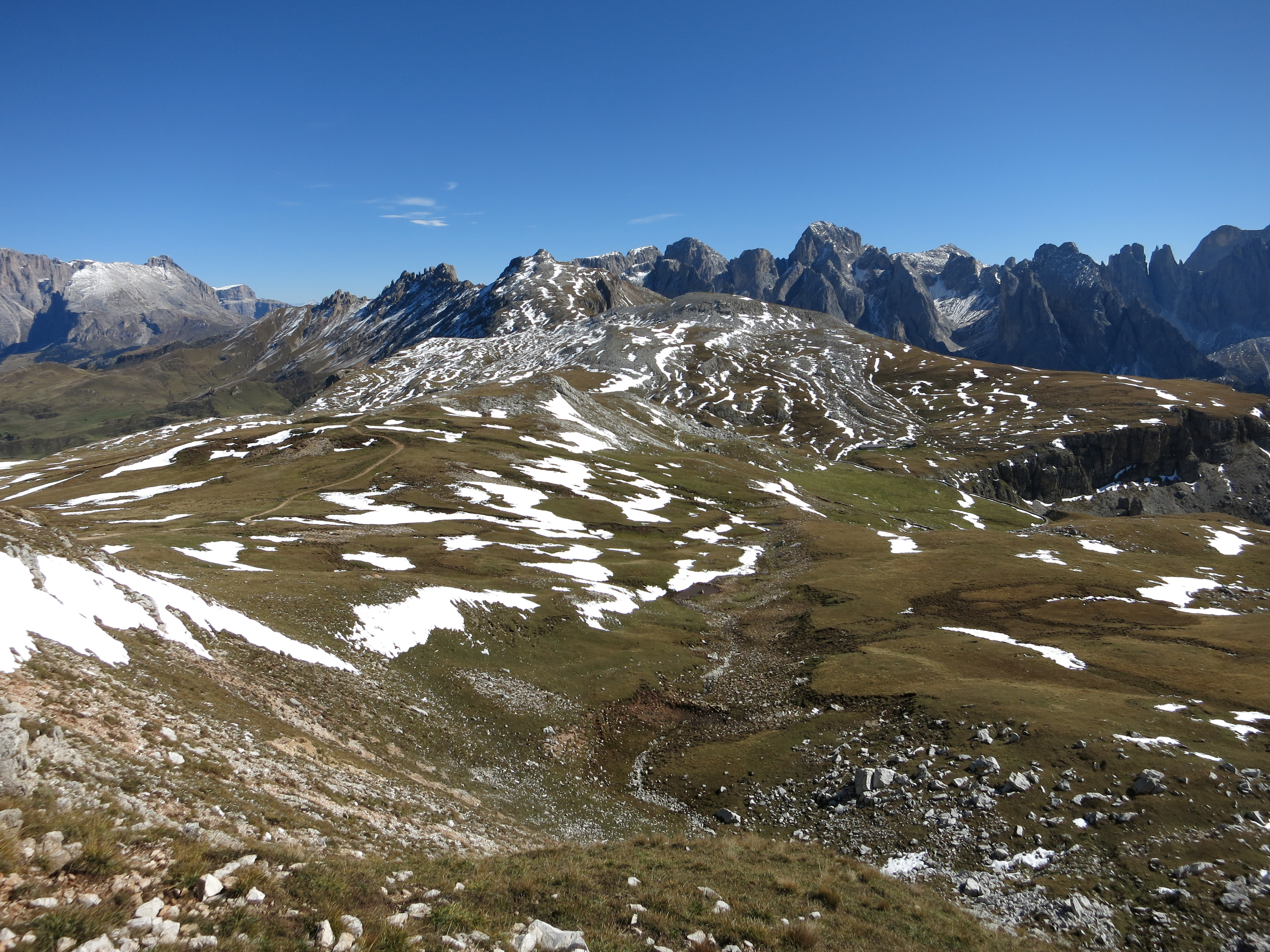 On top of mountain Schlern, South Tyrol (Italy)